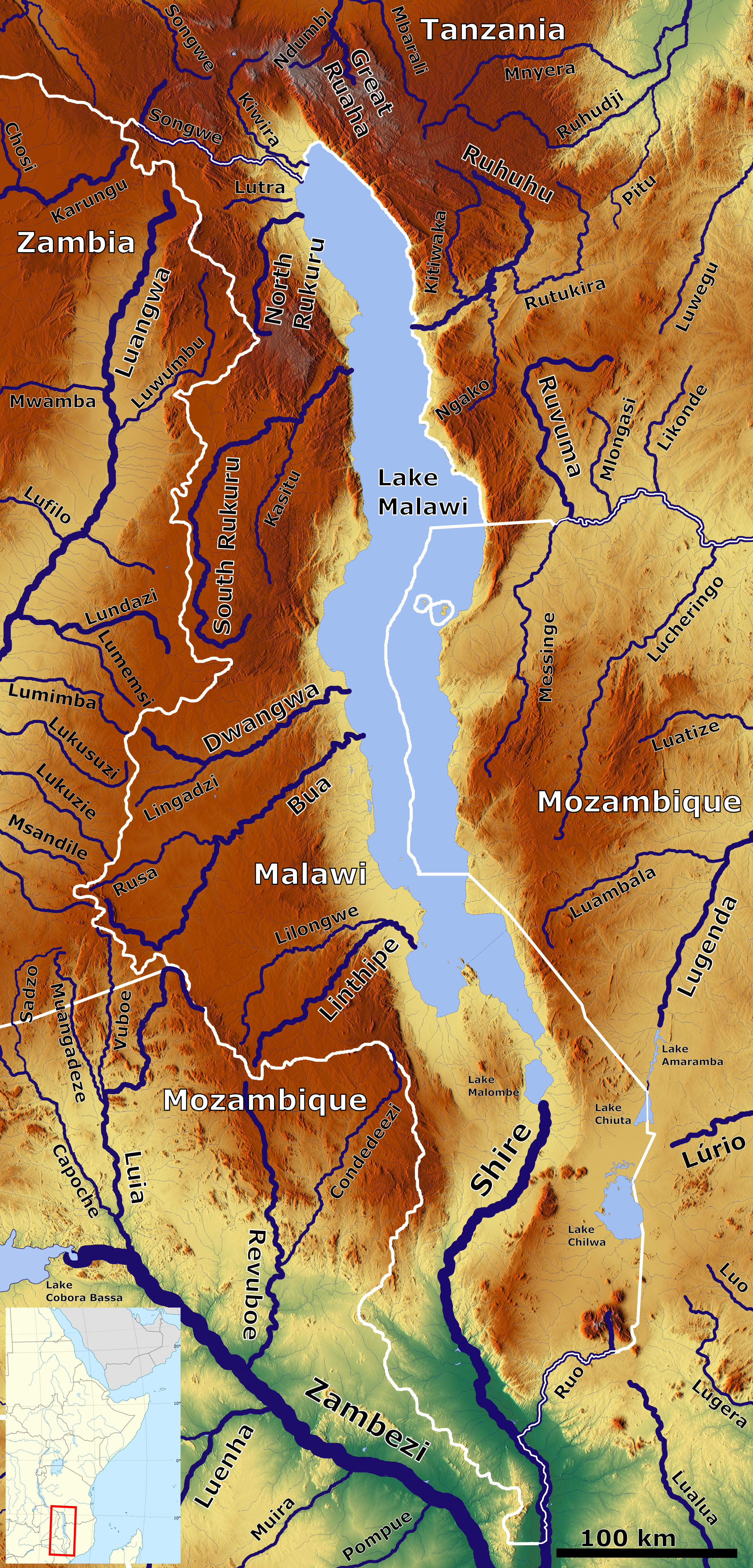 The Shire River catchment with Lake Malawi and the rivers of Mozambique̠ OSM